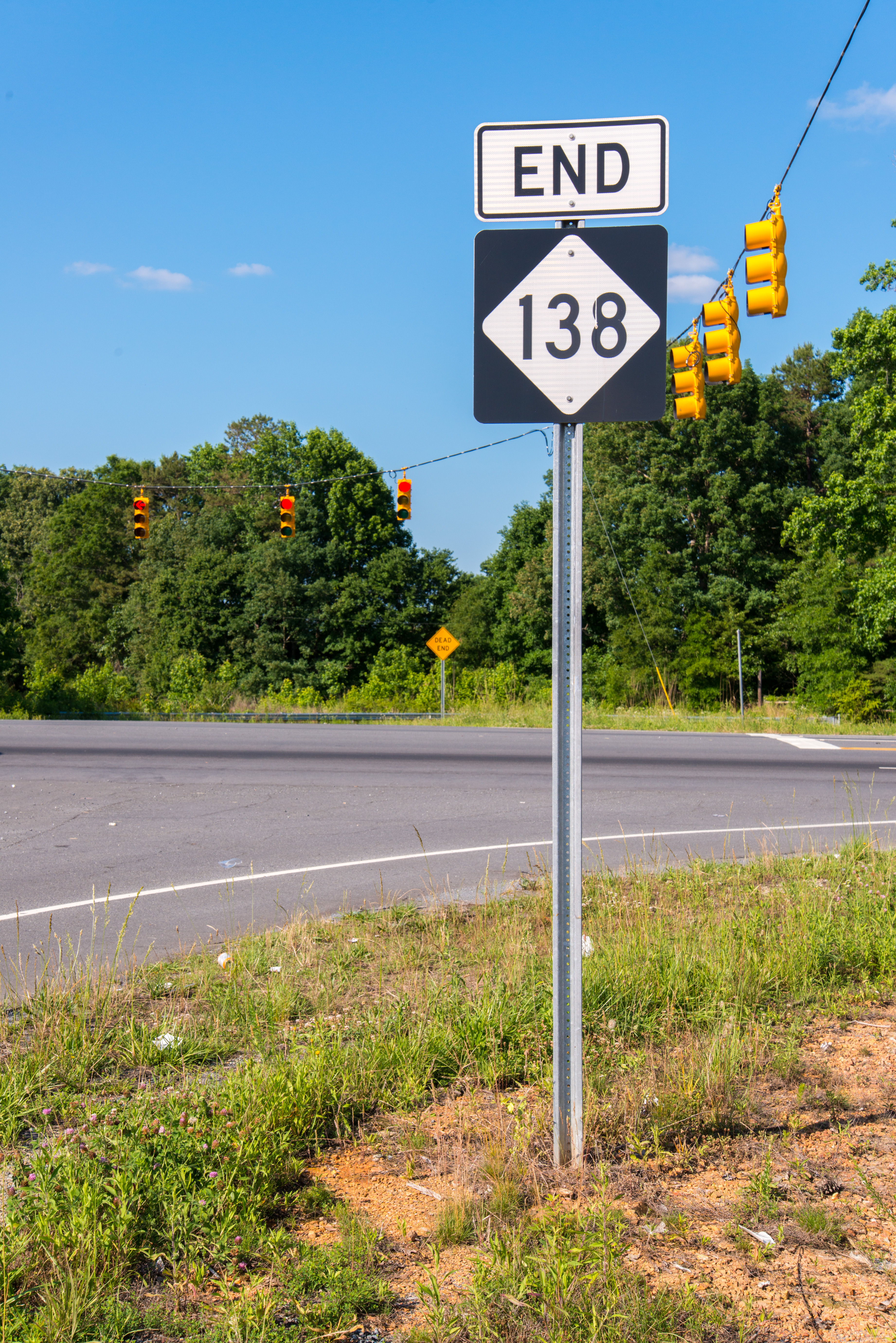 North end of NC 138. Located along US 52, south of Albemarle, North Carolina.